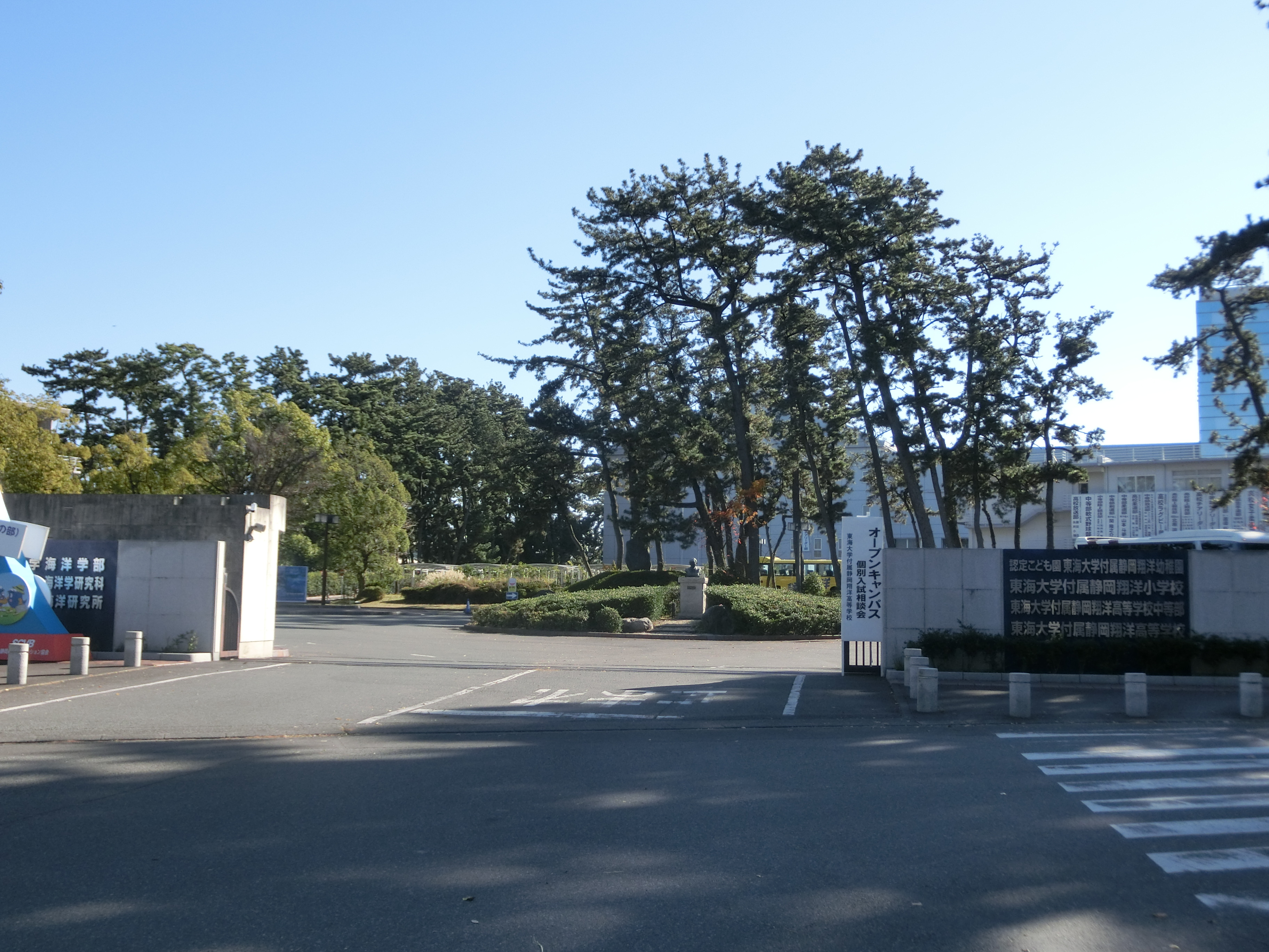 Tokai University Shimizu Campus